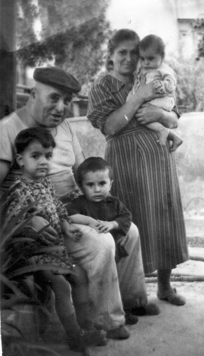 Edvard Chubaryan 75th Birthday, 05 May 2011 05, No. 15